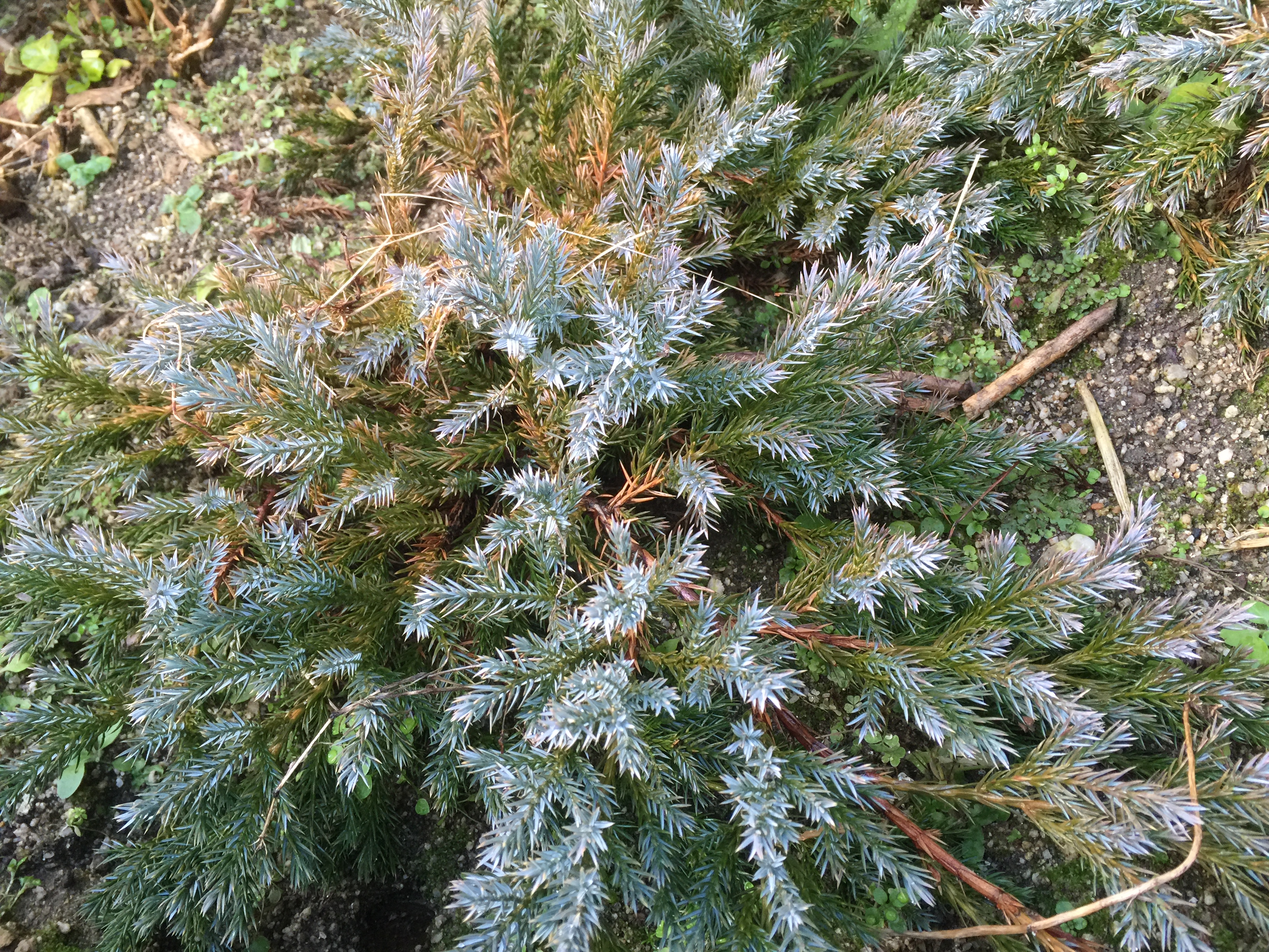 Juniperus procumbens"Sonare"